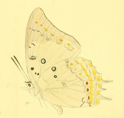 Murwareda delphis (Polyura delphis)